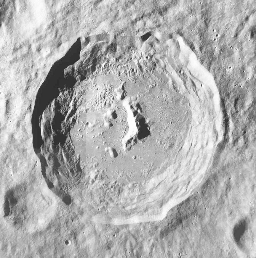 Crater Stevinus (detail of LRO - WAC global moon mosaic; Mercator projection)